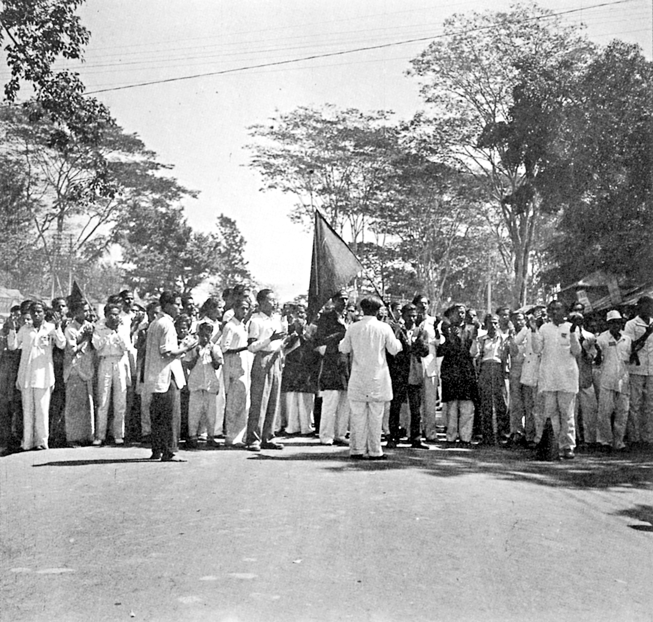 21st February, 1953. In the morning of first martyrs' day rally by students and general people at medical hostel point (from where the shooting took place), munazat (prayer) for the peace of Shaheeds (martyrs).